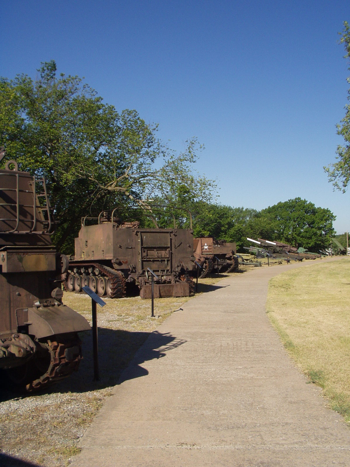 Cannon walk at Fort Sill, OK.